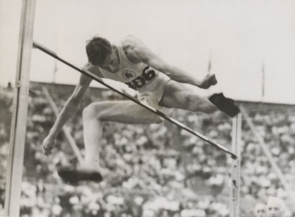 Athlete John Winter winning the high jump event at the London Olympic Games, July 1948.